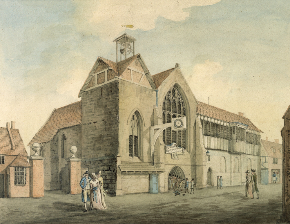 The Hospital of St. John the Baptist in Hales Street, Coventry. This was the site of King Henry VIII school after 1558.